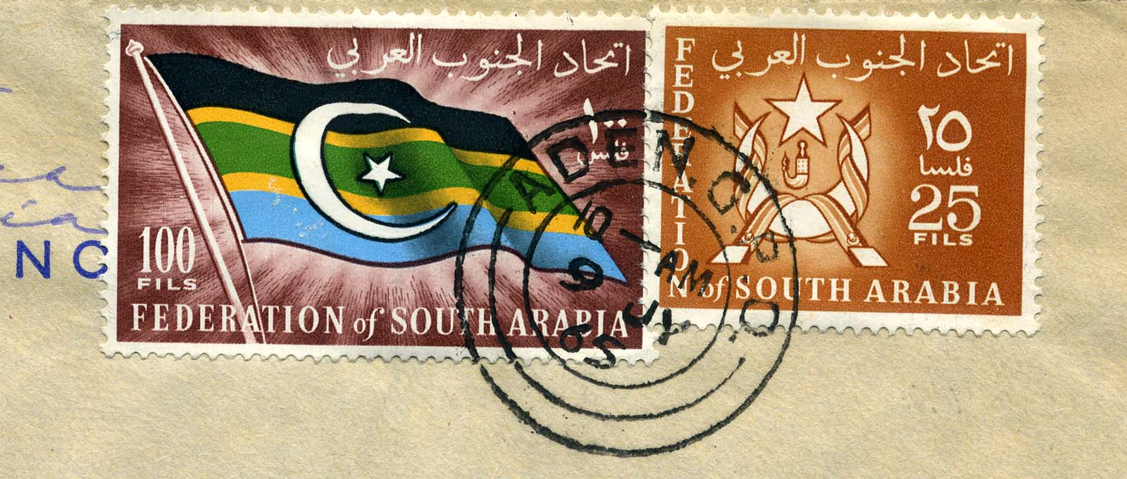 Two stamps of South Arabia used at Aden in 1965, scanned by User:Stan Shebs These are from a cover sent from Aden to San Jose, photographically cropped because the rest of the cover is uninteresting, and too much trouble to fuzz out the names of sender and recipient, for their privacy.